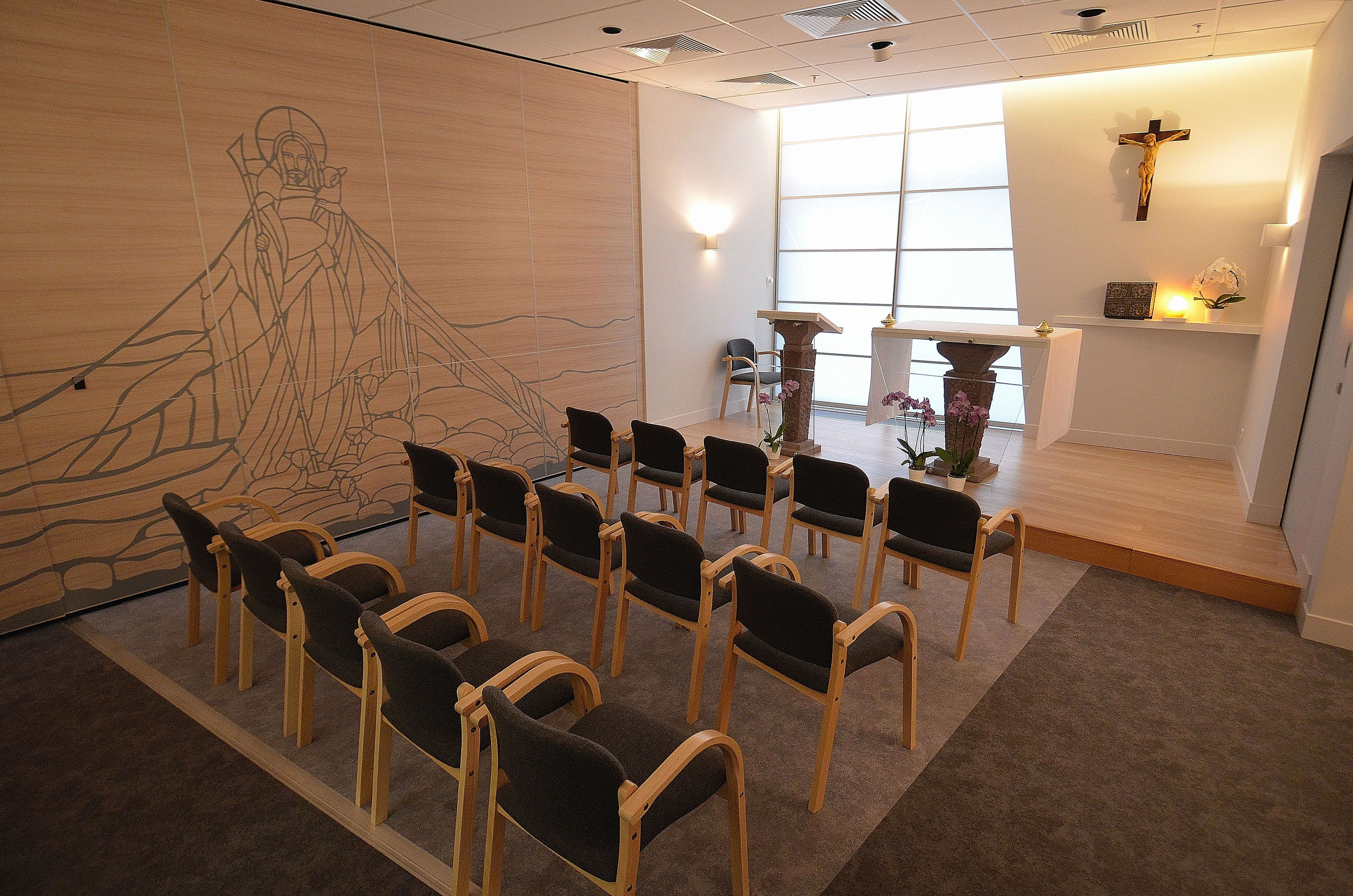 Chapel at the Chopin Airport in Warsaw (near gate 37)